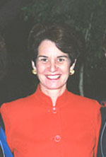 Kathleen Kennedy Townsend giving out awards to members of the NIH.